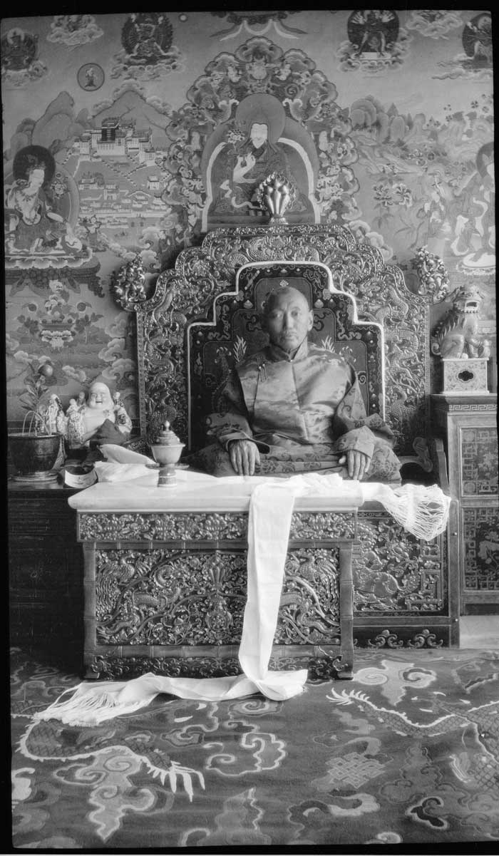 The 13th Dalai Lama sitting on a throne at Norbulingka, around 1932.